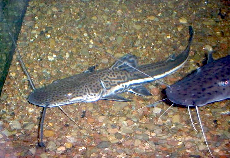 firewood catfish Sorubimichthys planiceps Cropped.